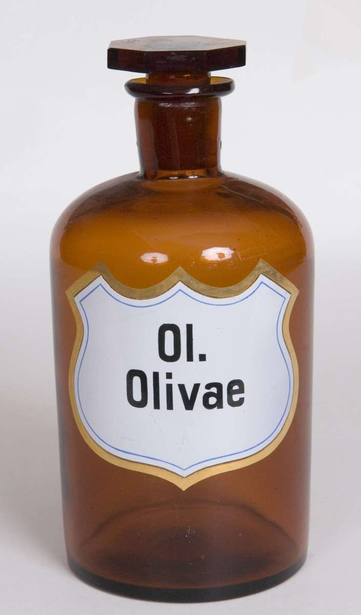 Glass bottle for olive oil, intended for pharmaceutical use, from Norwegian Pharmacy Museum. On the label, the Latin phrase: Ol. olivae" (Oleum olivae'), meaning olive oil